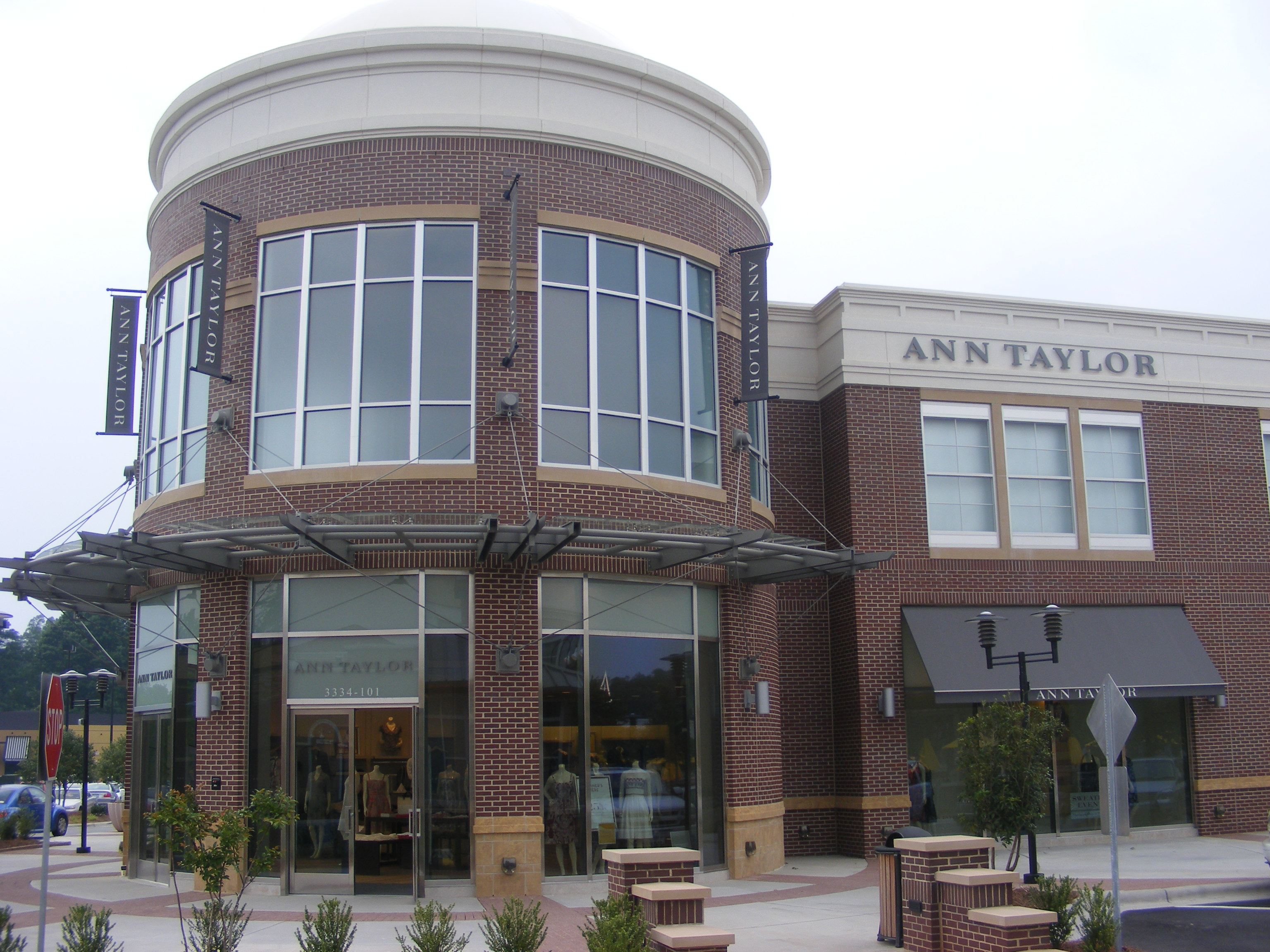 Ann Taylor at the Friendly Center.